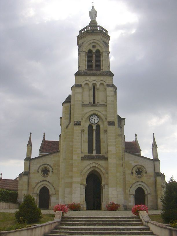 Notre-Dame-de-Maylis church in Landes, France